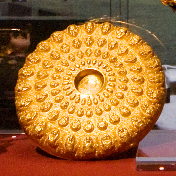 cutout from File:Sofia - Panagyurishte Thracian Gold Treasure.jpg The Panagyurishte Treasure (Панагюрско златно съкровище) is a Thracian treasure discovered in 1949 two kilometres south of the town of Panagyurishte, Bulgaria. It consists of nine gold vessels (a phiale, an amphora and seven rhytons) with total weight of 6.164 kg of 23-karat gold. All of the objects are richly and skilfully decorated with scenes of Thracian myths, customs and life. The treasure is dated to the 4th-3rd centuries BC, and is thought to have been used as a royal ceremonial set, possibly by a Thracian kings. The big amphora has handles shaped as centaurs, and the openings for pouring wine represent Negro heads. Inbetween those two opinings, the amphora is decorated with a scene of Hercules fighting a snake. Three of the seven rhytons are jugs with Amazon heads and carry scenes and heroes from Greek mythology, and the phiale carries inscriptions giving its weight in Greek drachmae and Persian darics. As one of the best known surviving artifacts of Thracian culture, the treasure has been displayed at various museums around the world. When not on a tour, the treasure is the centerpiece of the Thracian art collection of the National Museum of History in Sofia.